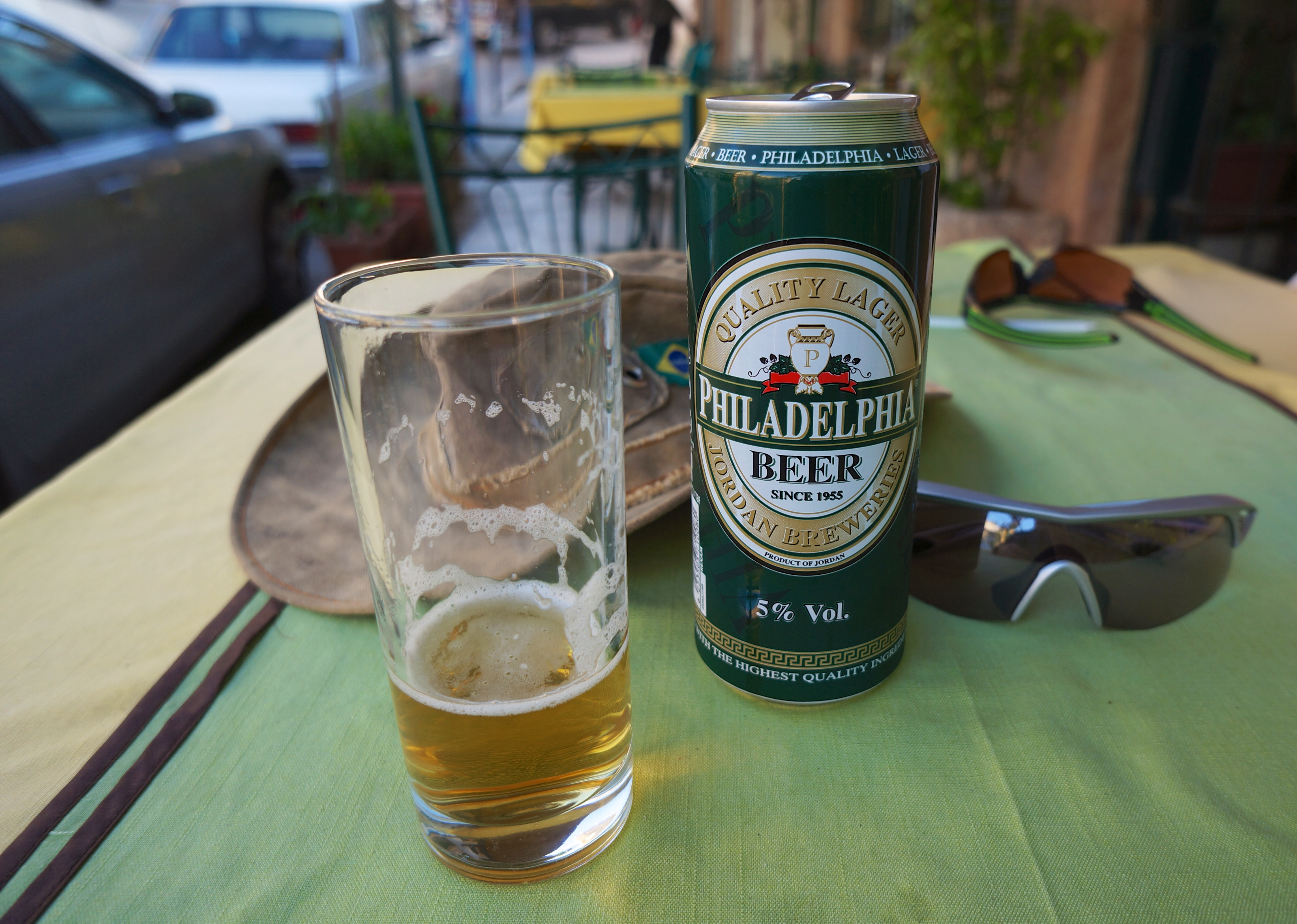 Jordanian beer